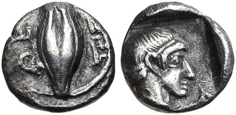 IONIA, Magnesia ad Maeandrum. Themistokles reverse. Circa 465-459 BC